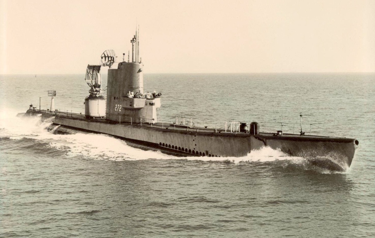 USS Redfin (SSR-272) as a radar picket in transit, circa 1953-57.